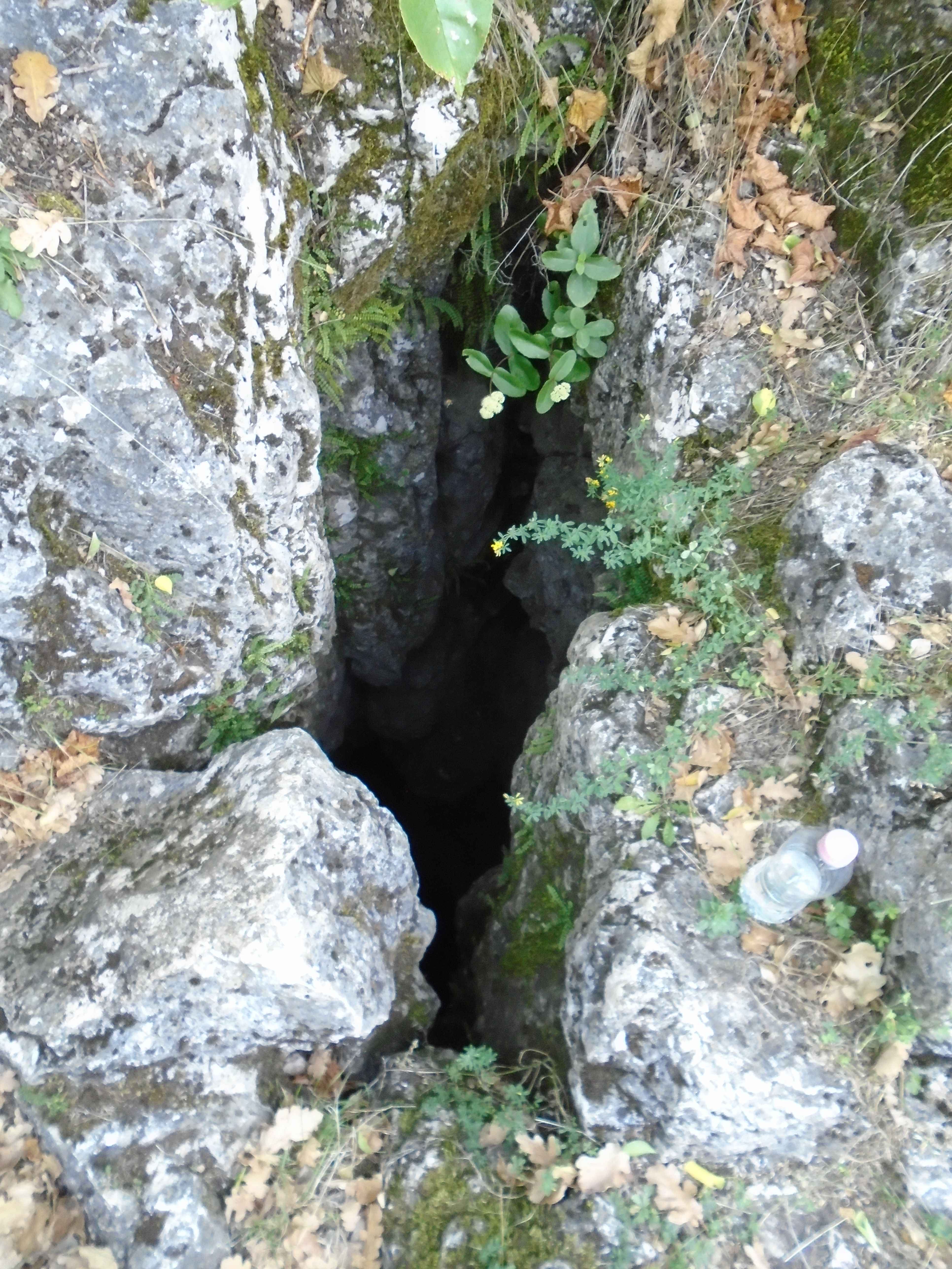 Entrance of Hét Hole.